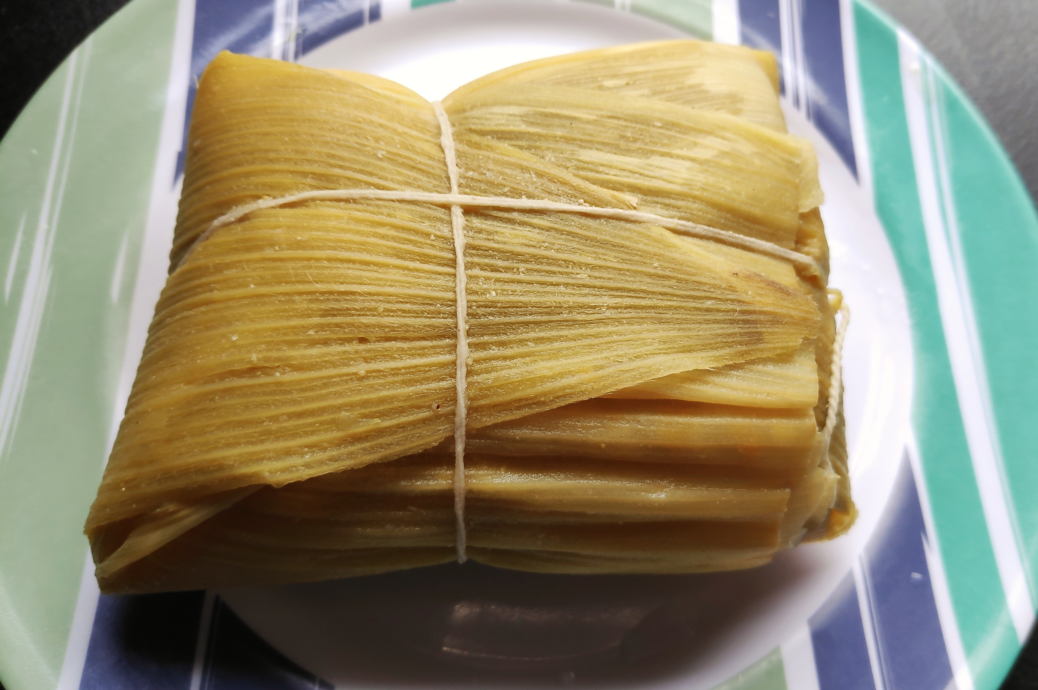 A pamonha (corn cake), from a street stall of "Cantinho da Pamonha", Belo Horizonte, MG, Brazil